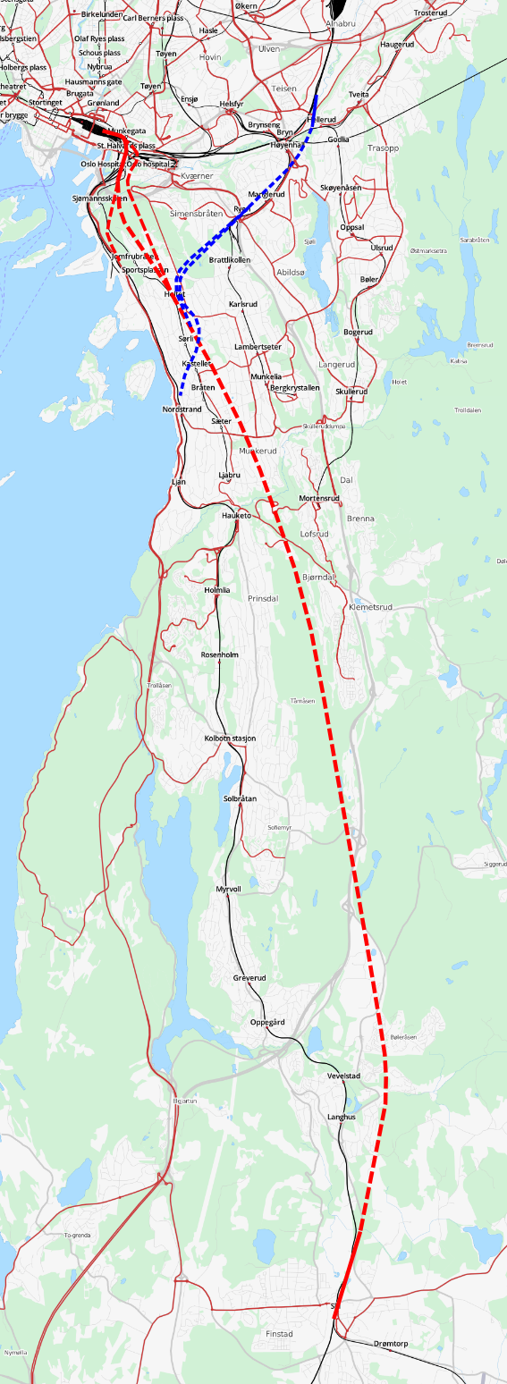 Map of Follobanen, based on File:Oslo-Ski.png